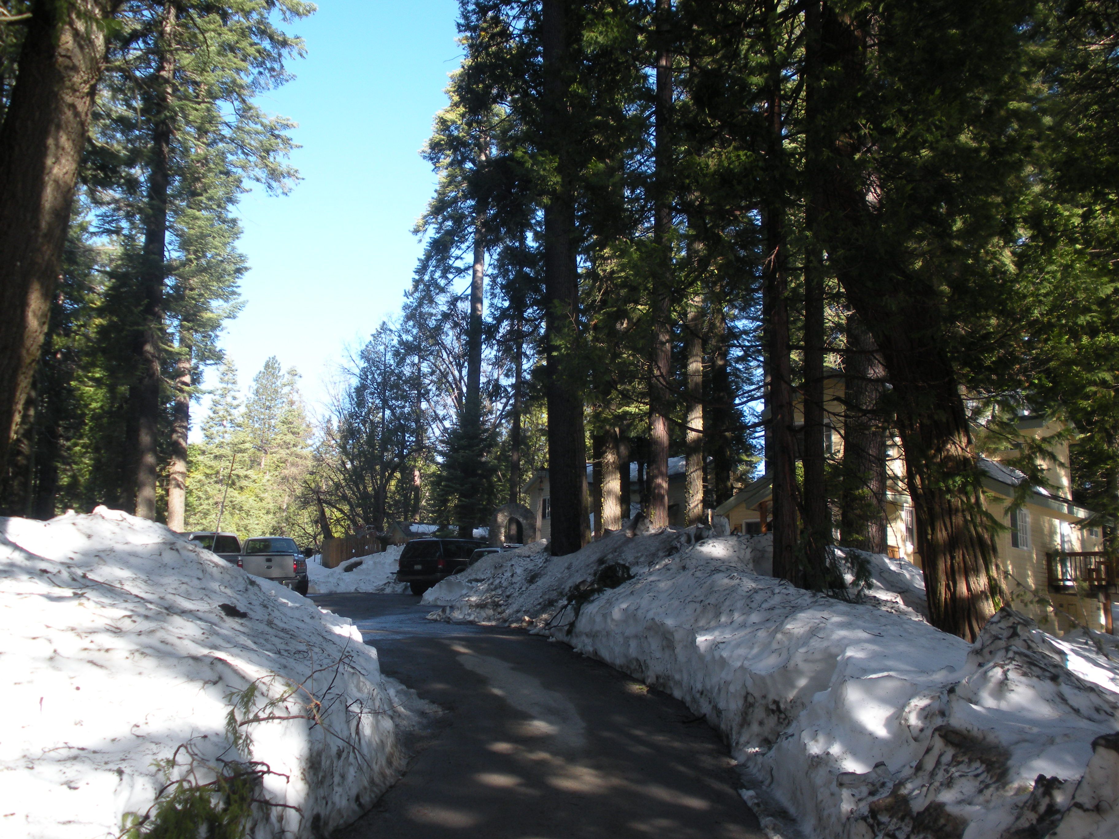 This is the driveway to Tenaya Lodge in Fish Camp, California. Originally posted at my Flickr